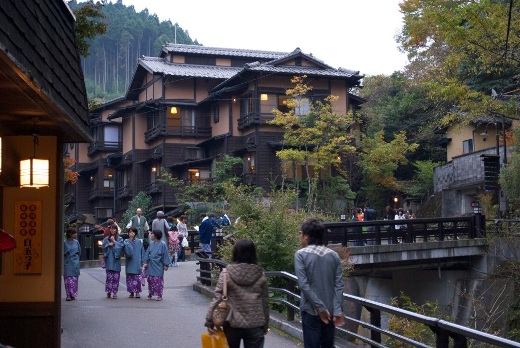 The main street of Kurokawa Onsen. Geotag data added below.--トトト (talk) 22:16, 25 April 2011 (UTC)